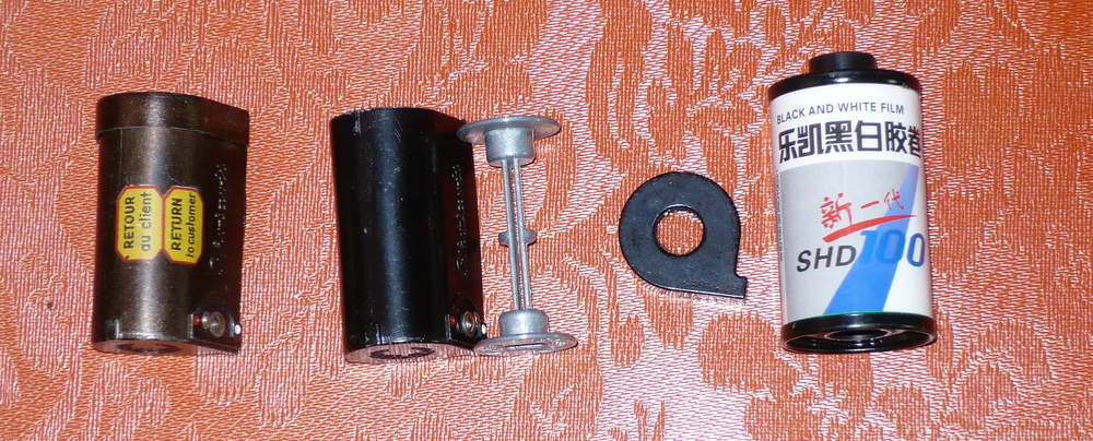 Photavit cassette vs regular 35mm film cassette